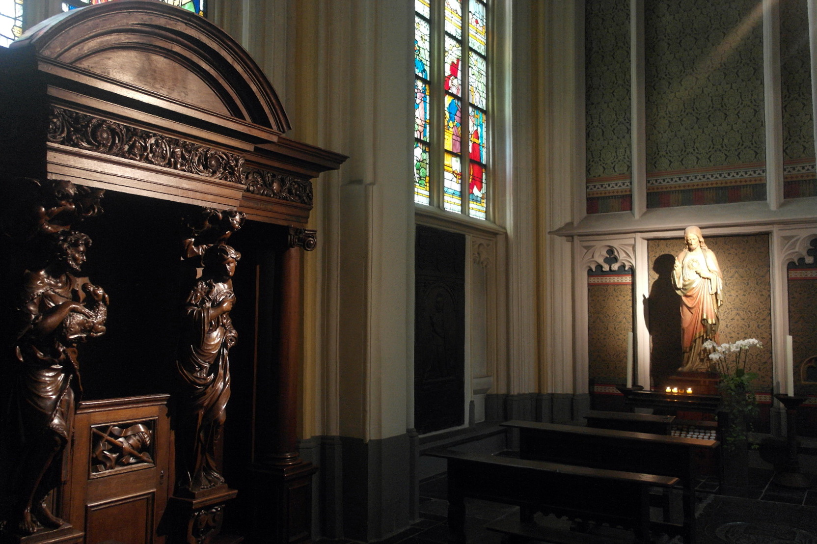 Baroque confessional in one of the North aisle chapels in the Basilica of Saint Servatius in Maastricht, the Netherlands. The six 17th-century confessionals in the church are a superb work of wood carving by Daniel van Vlierden of Hasselt. They were made for the nearby Dominican church in Maastricht and were moved here in 1804 after the dissolution of the monasteries by the French. The most northwestern chapel is dedicated to the Sacred Heart of Jesus and features a late 19th-century decoration scheme.